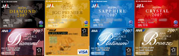 ffp card of Japanese airlines